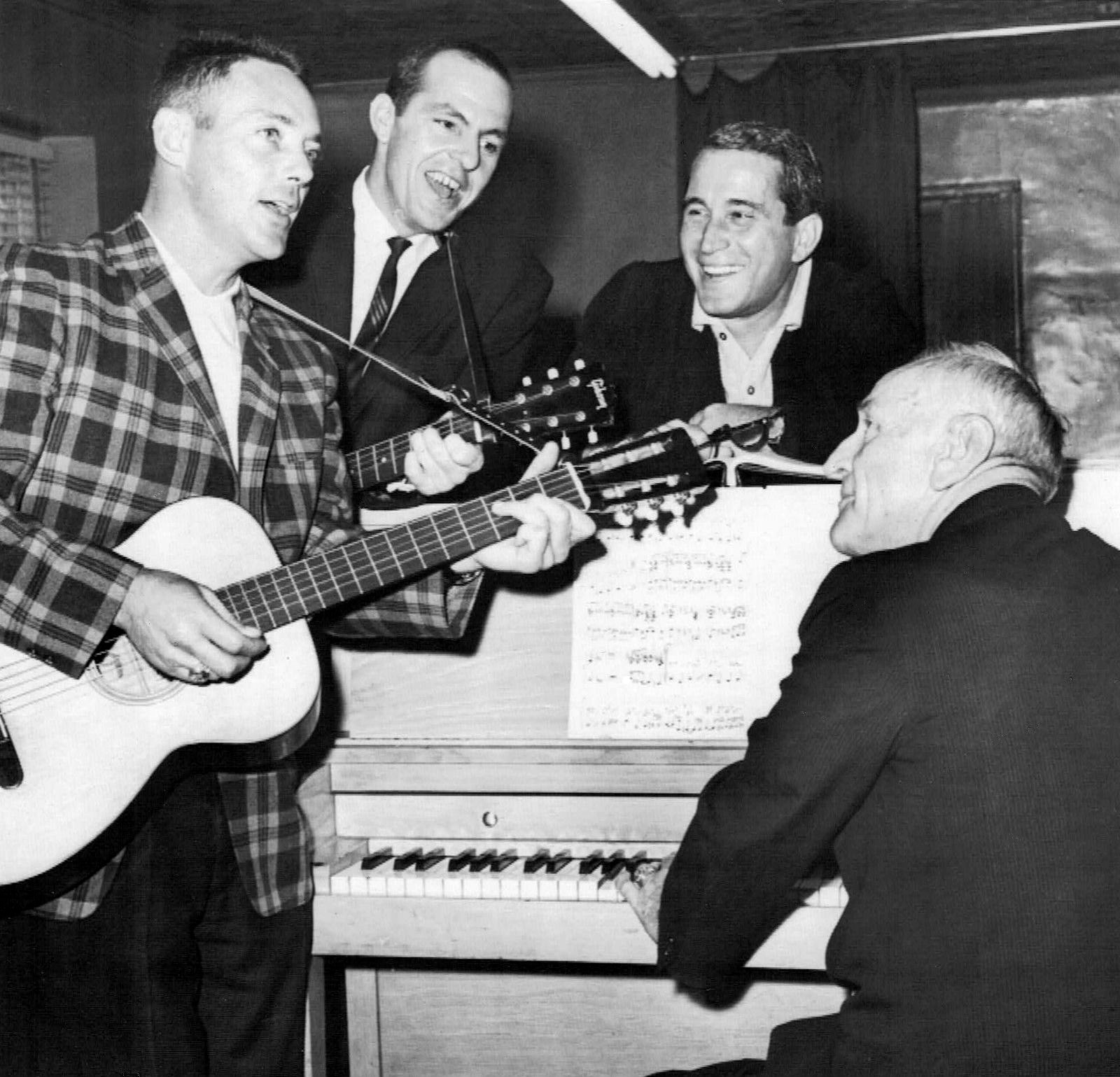 Photo of Pittsburgh Pirates stars with Perry Como and Casey Stengel rehearsing for Kraft Music Hall in 1960. From left: Elroy Face, Hal Smith, Perry Como and Casey Stengel at the piano. Note the uploaded photo is larger and of better quality than the newsprint photo. Renewal searched were done at . There were no listings for the Valley Morning Star and also no renewals for items published in 1960 for UPI/United Press International. There's no evidence of current copyright for the photo.